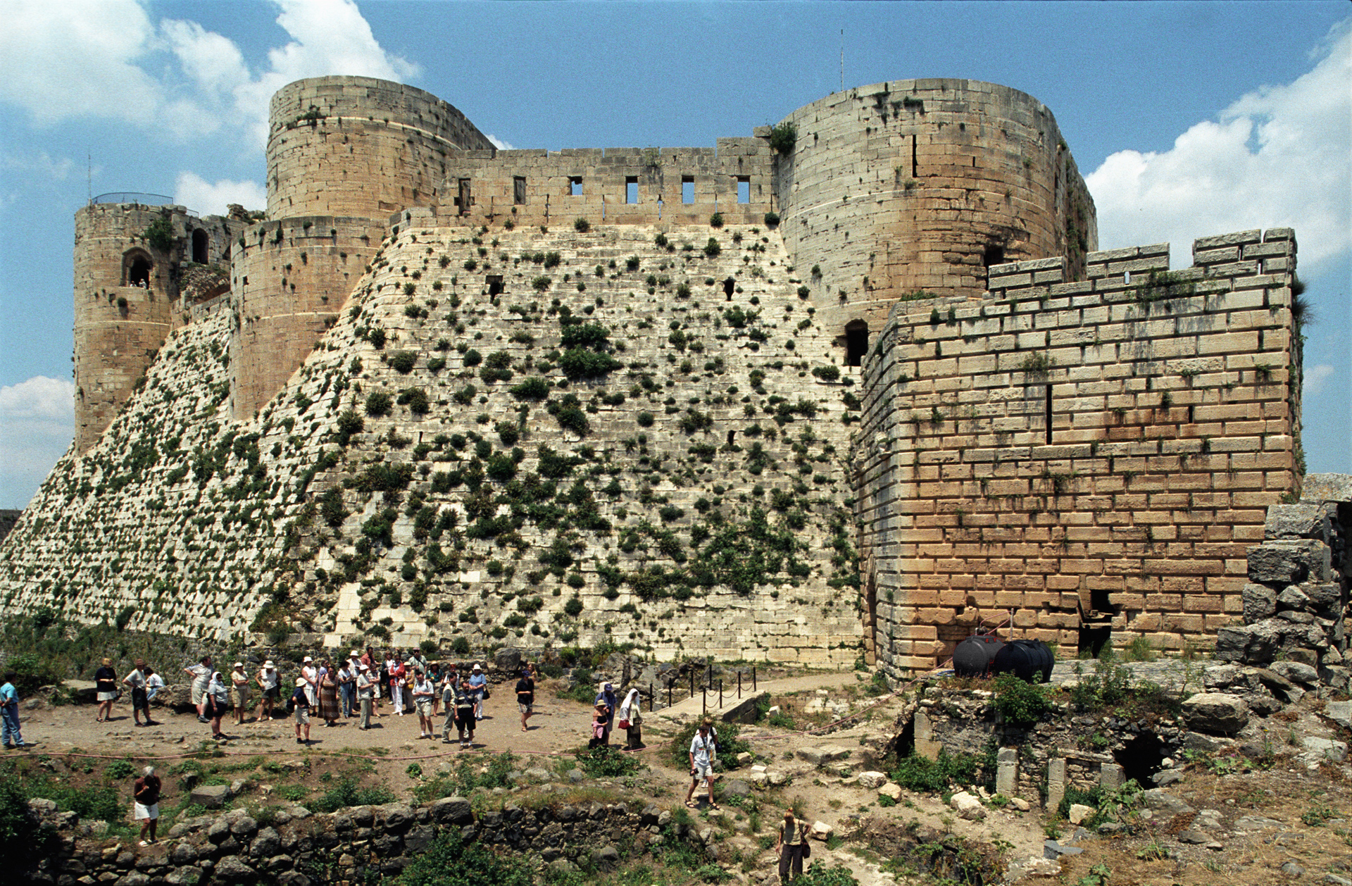 Krak des Chevaliers, the upper castle